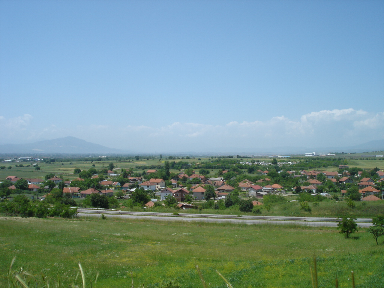 village of Miladinovci, near Skopje, Macedonia